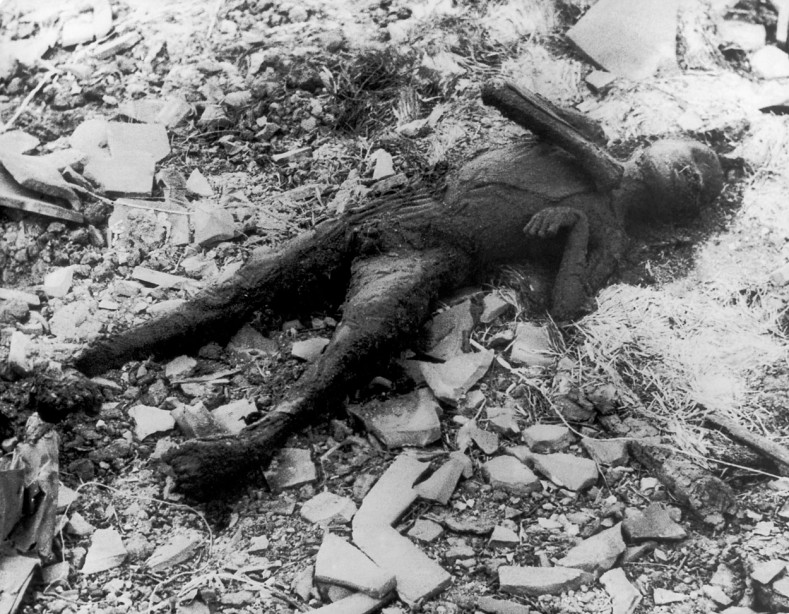 Carbonised child